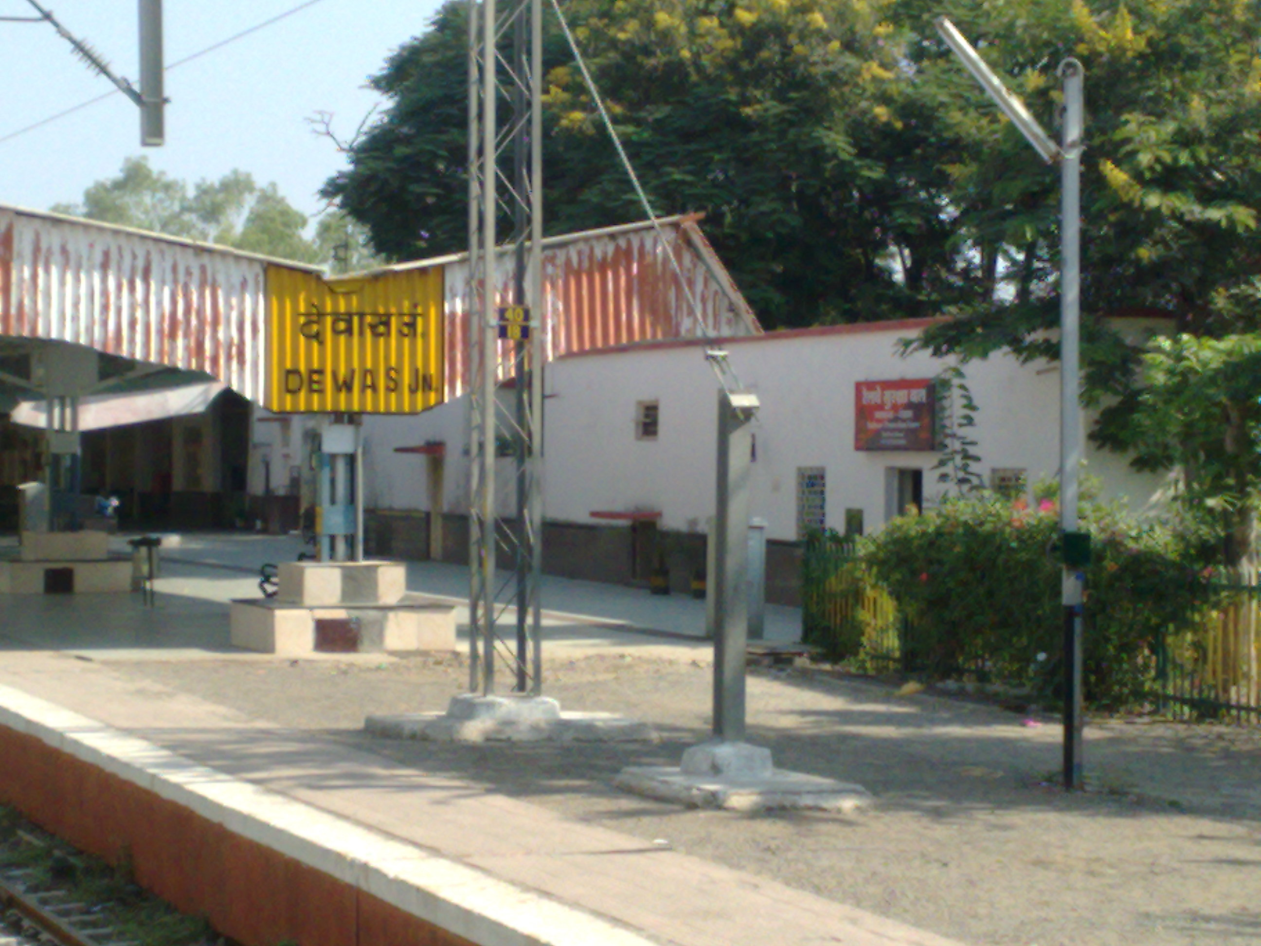 Dewas Junction